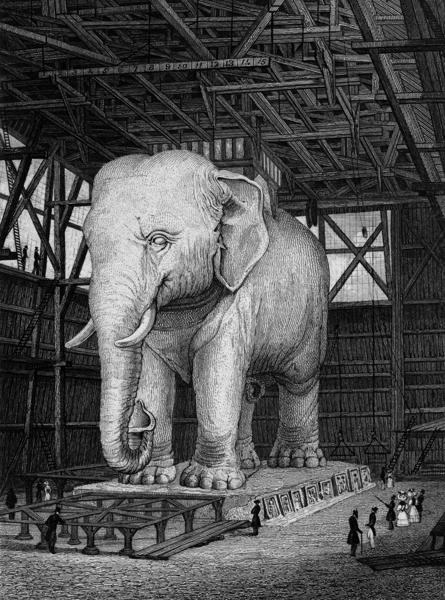 In 1810, a decree was signed allowing for the construction of a bronze elephant fountain in the Place de la Bastille, as proposed by Napoléon. In an effort to commemorate his army, the Emperor envisioned a fountain that discharged water from the elephant's trunk. A winding staircase was to be built inside one of the elephant's legs, and the total height of the structure was to measure 72 feet. Despite the grandeur of the project (as illustrated in the engraving shown here), military conflicts with Spain interfered with the construction process, and Napoléon's reign ended before the project could be completed.